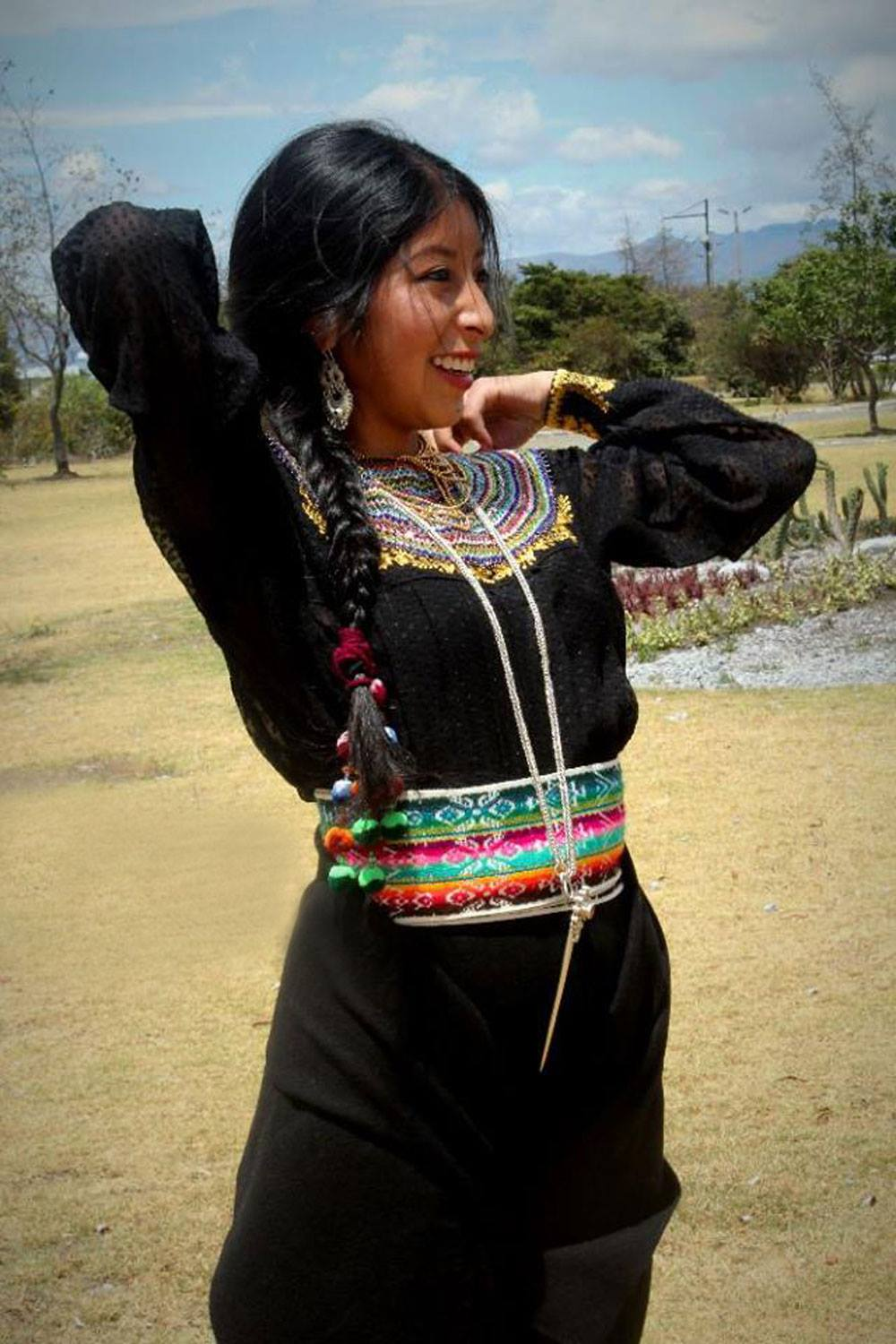 A Saraguro woman wearing most of ther traditonal dress. Some of them also wear a traditional hat made of sheep wool and a bayeta (a black wool shawl ) while others do not.Photo taken by Isis Patino and shared through facebook with Urkumanta to be upload on Wikipedia